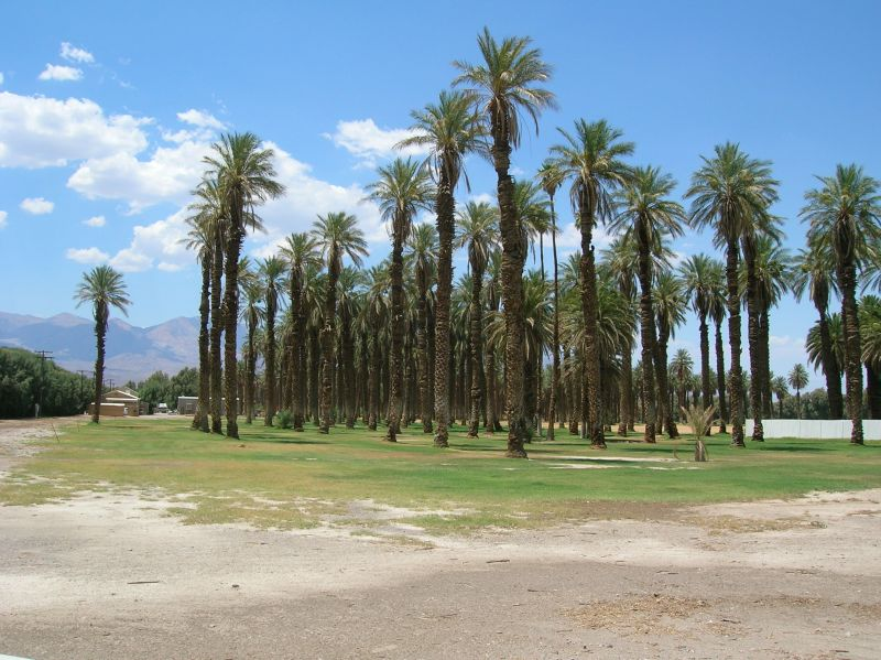 Furnace Creek Ranch